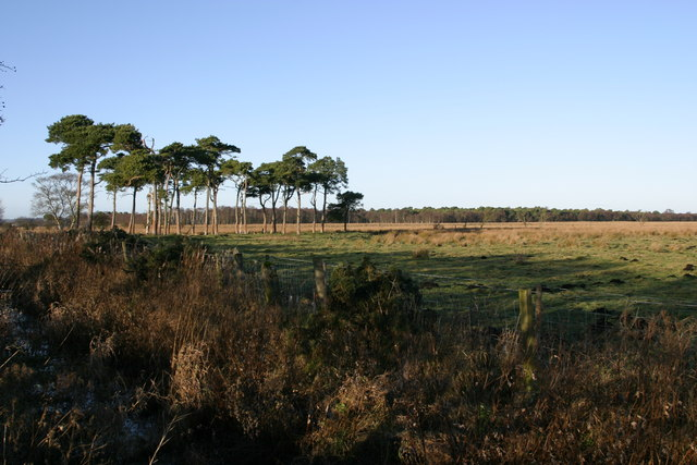 Prestwick Carr looking towards Carr Plantation The area shown in the photograph is used as a small arms firing range.